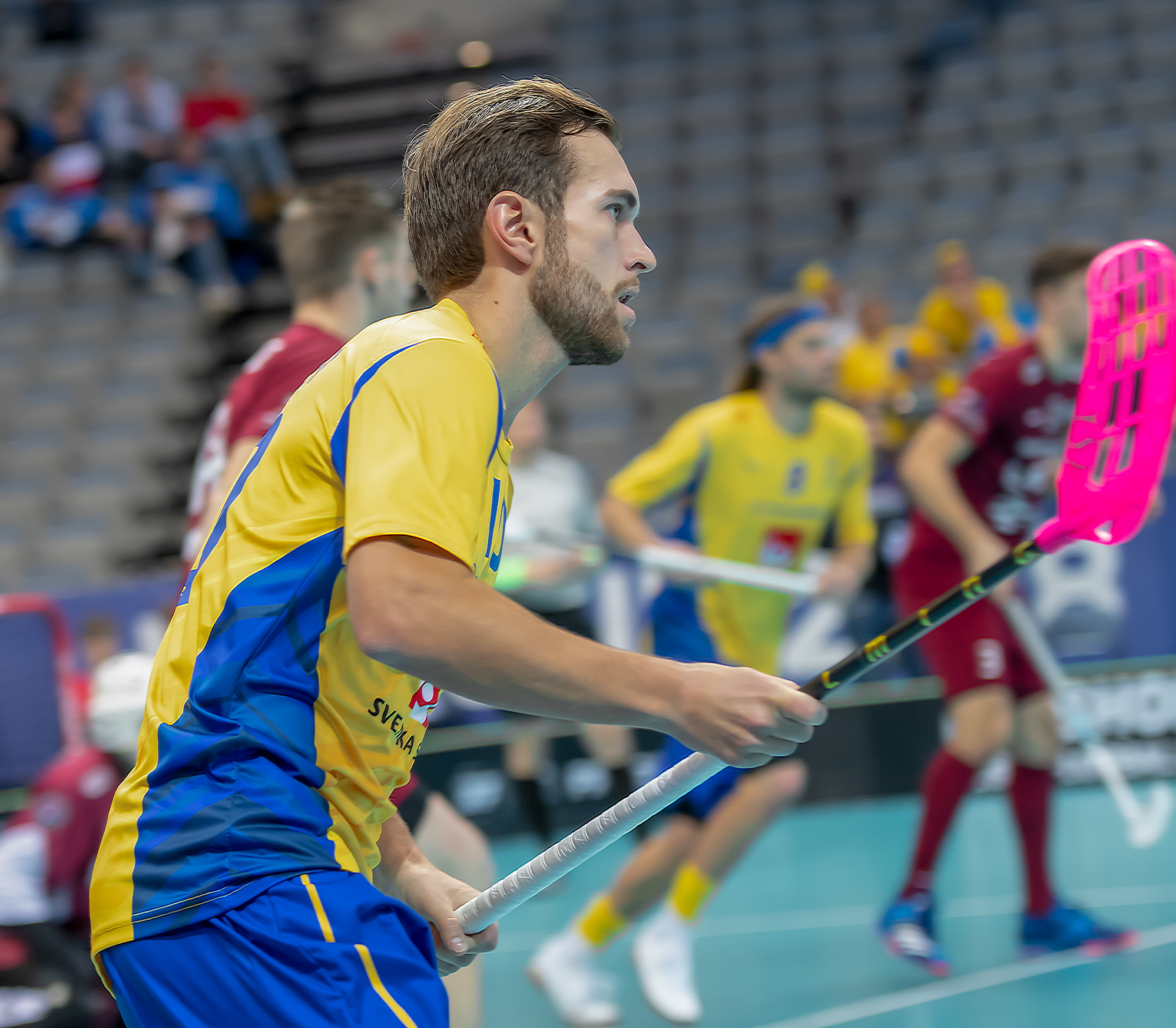 WFC2018 Sweden vs Latvia